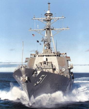 The U.S. Navy guided missile destroyer USS Arleigh Burke (DDG-51) during Bravo Sea Trials off Maine (USA).